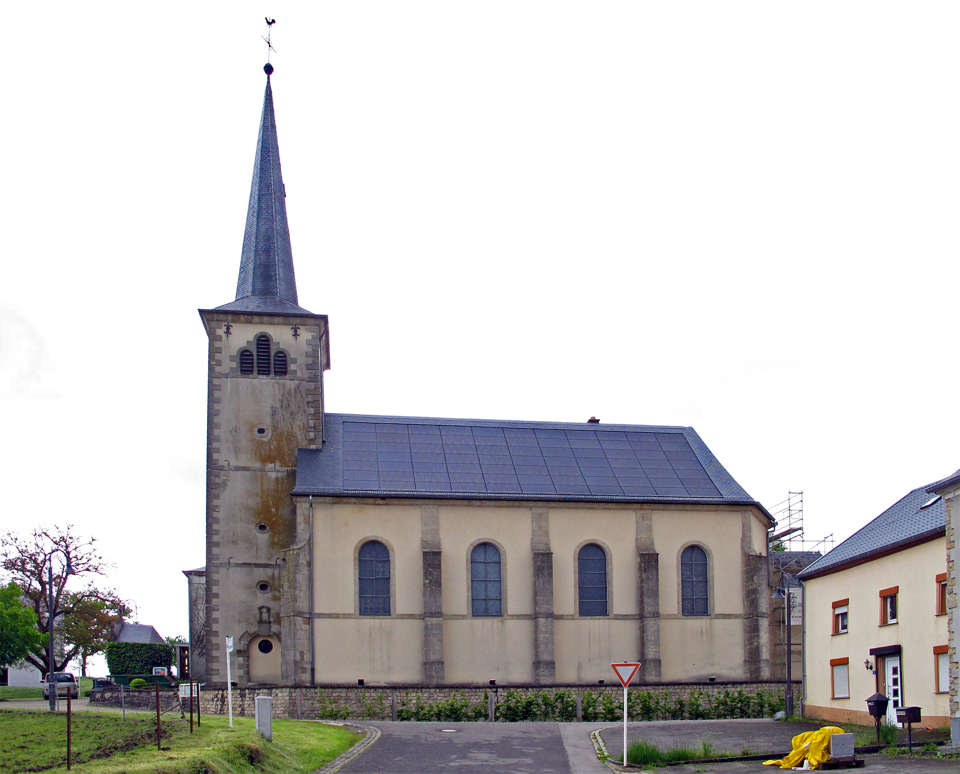 Church of Elvange (Beckerich), Luxembourg